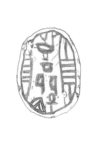 Drawing of an ancient Egyptian scarab seal allegedly bearing the cartouche of the otherwise unknown pharaoh Nuya of the 14th Dynasty, but it has been suggested that it may rather belongs to pharaoh Khyan of the 15th Dynasty. Based on a picture by Elisabeth Staehelin (Skarabäen und andere Siegelamulette aus Basler Sammlungen, 1976, pl. 13, fig. 140). Provenance unknown.